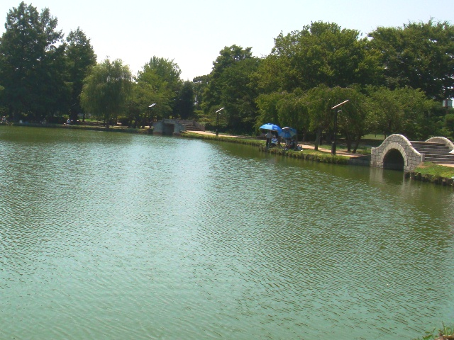 Suijo Park, Gyohda.